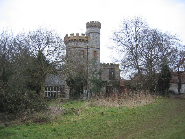 Clopton House Tower. This octagonal three storey building, complete with battlements, sits on the hill overlooking Stratford-upon-Avon. The Clopton family were benefactors of Stratford-upon-Avon from around the time of Shakespeare's father. The tower was designed as a belvedere for Clopton House and has been described as either "the smallest castle or grandest cottage in England"! The building was carefully converted into a private house in the 1990's, and a new section has been added in identical style complete with matching stone and battlements.